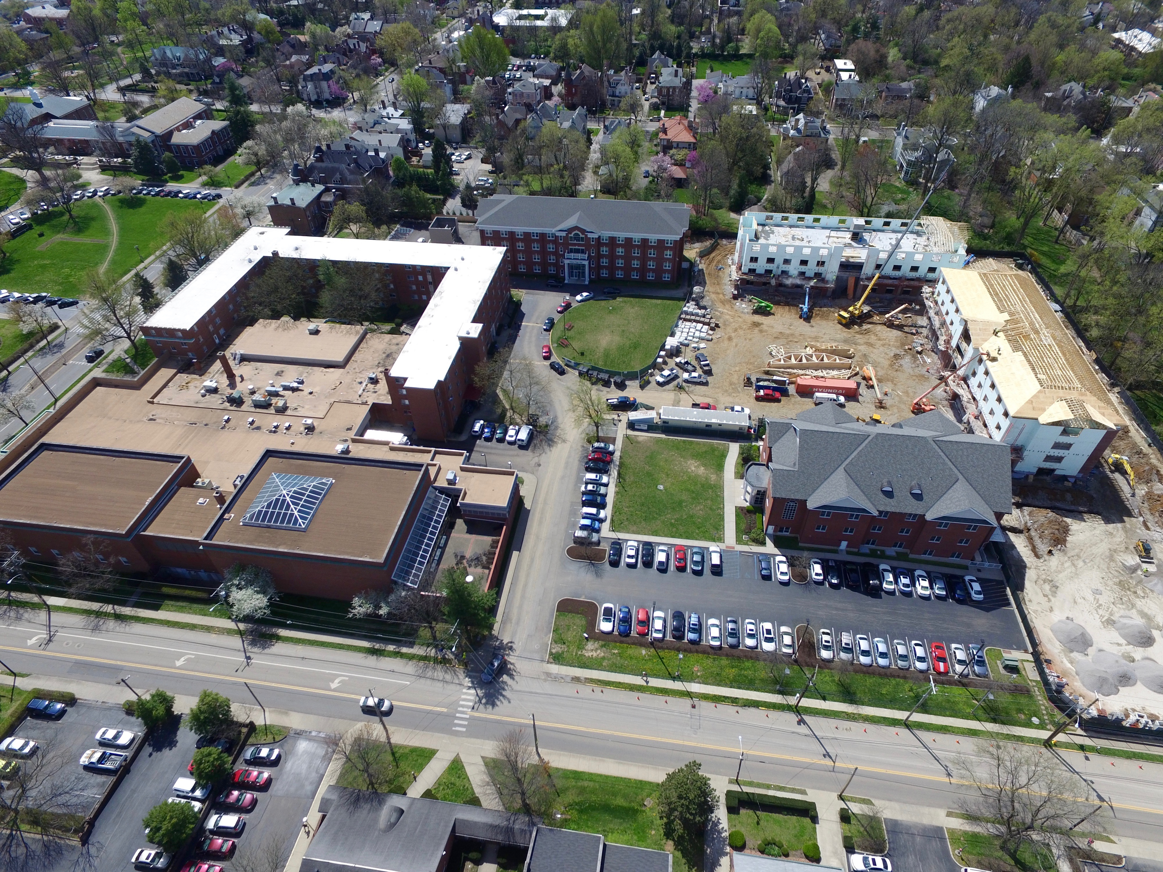 Drone photo from April 1 2016